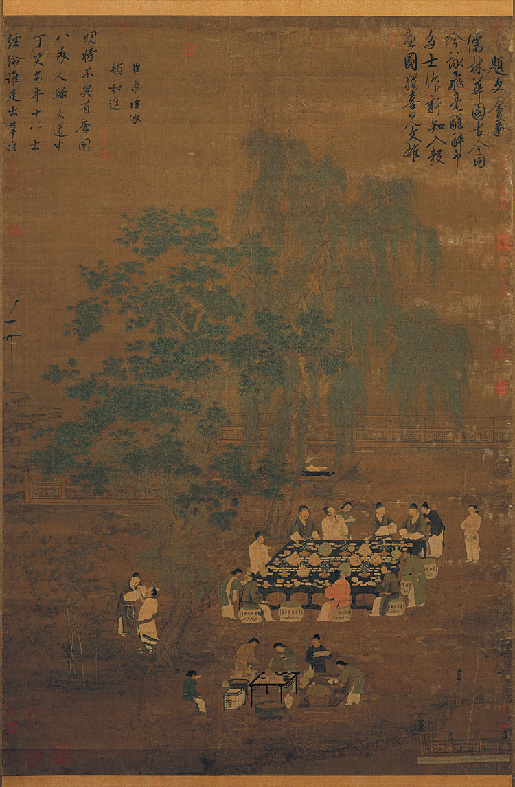 An Elegant Party, scroll, light color on silk. 184.4x129.3 cm. Located at the National Palace Museum.